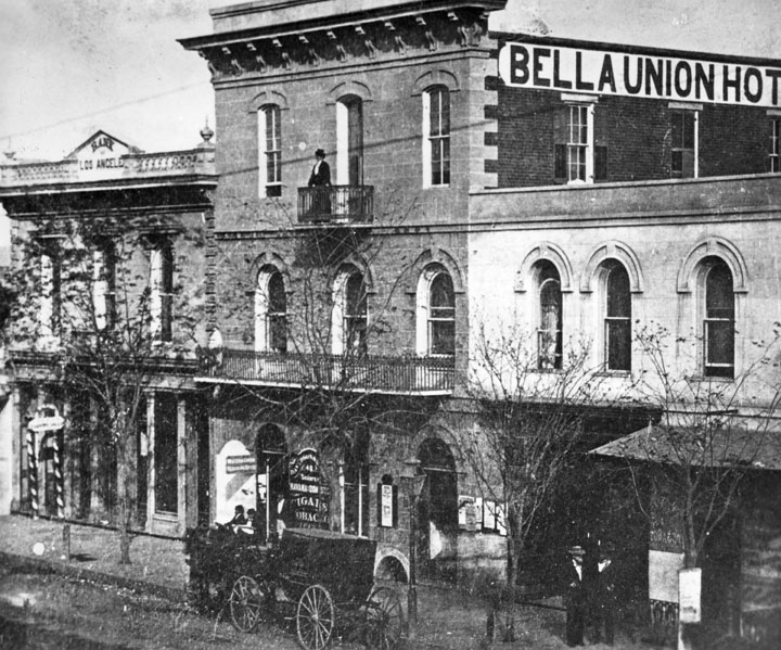 The Bella Union Hotel at 314 N. Main St. later became the St. Charles Hotel. The Bella Union became the Clarenden in 1873 and the St. Charles in 1875. To the left is the original home of Farmers and Merchants Bank, later merged into Security Pacific Bank. Standing on the balcony is Mrs. Margarita Bandina Winston, wife of Dr. J.B. Winston.